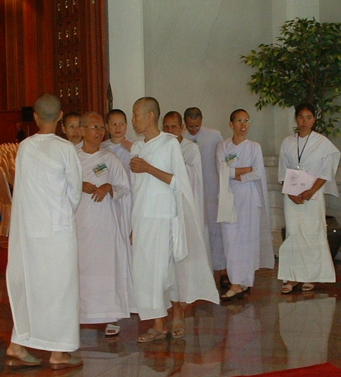 Maeji at a conference in Bangkok Photograph by Gakuro. Nov. 2005